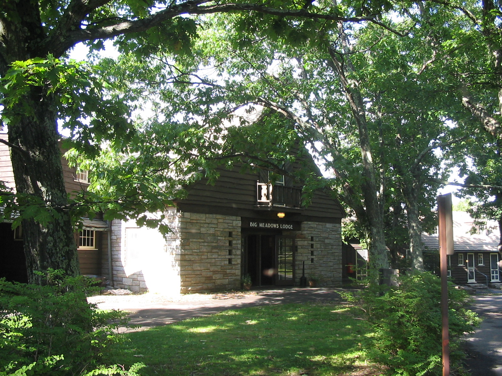 Image taken by me for Wikipedia